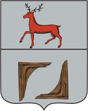 Balakhna (Nizhny Novgorod oblast), coat of arms (1781)